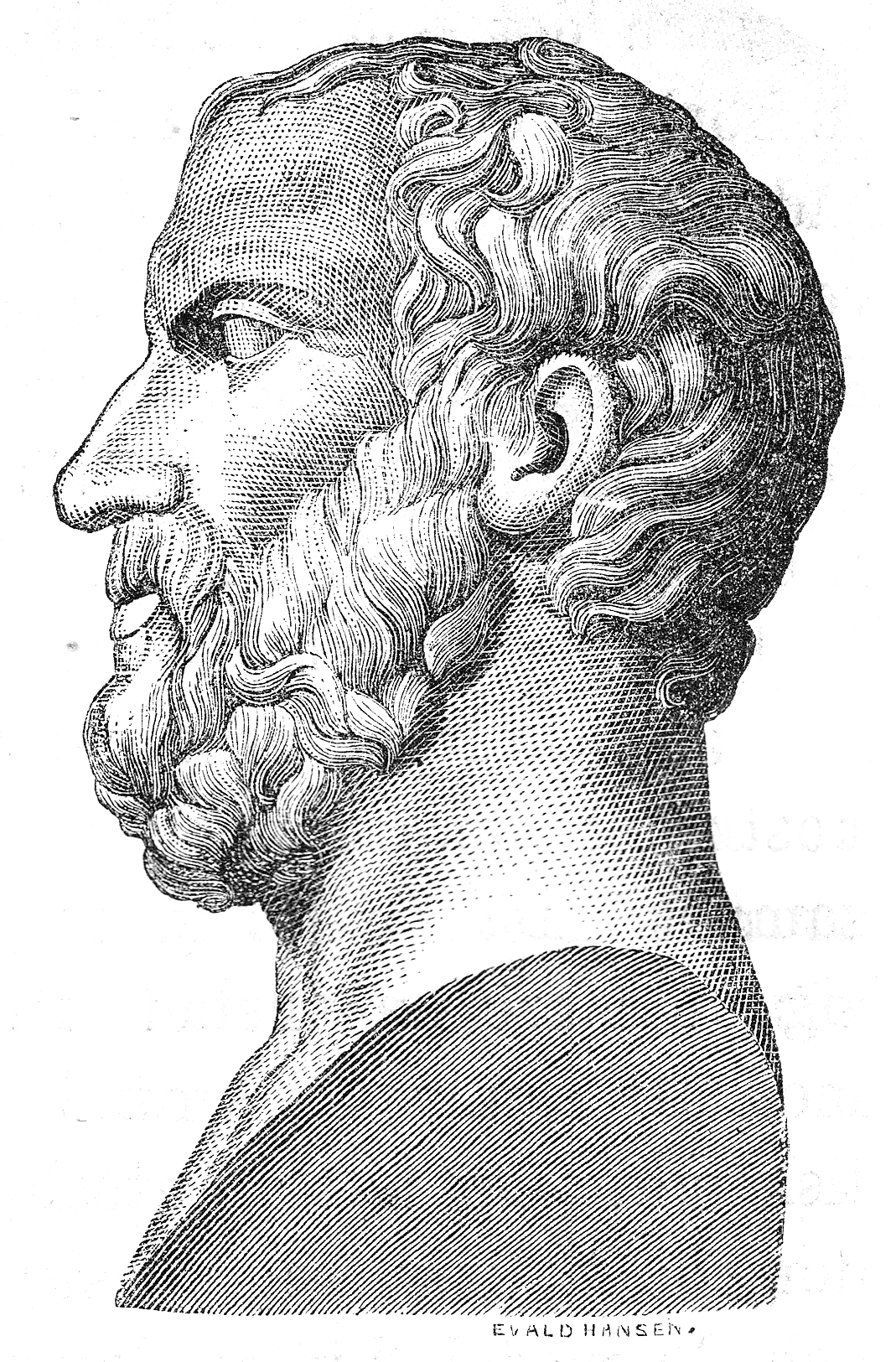 Illustration from Illustrerad verldshistoria by E. Wallis, volume I. "Zeno of Citium. Caption: 'Zeno of Cyprus'."